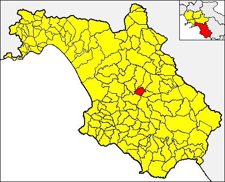 Locator map of the municipality of Bellosguardo (red) within the Province of Salerno